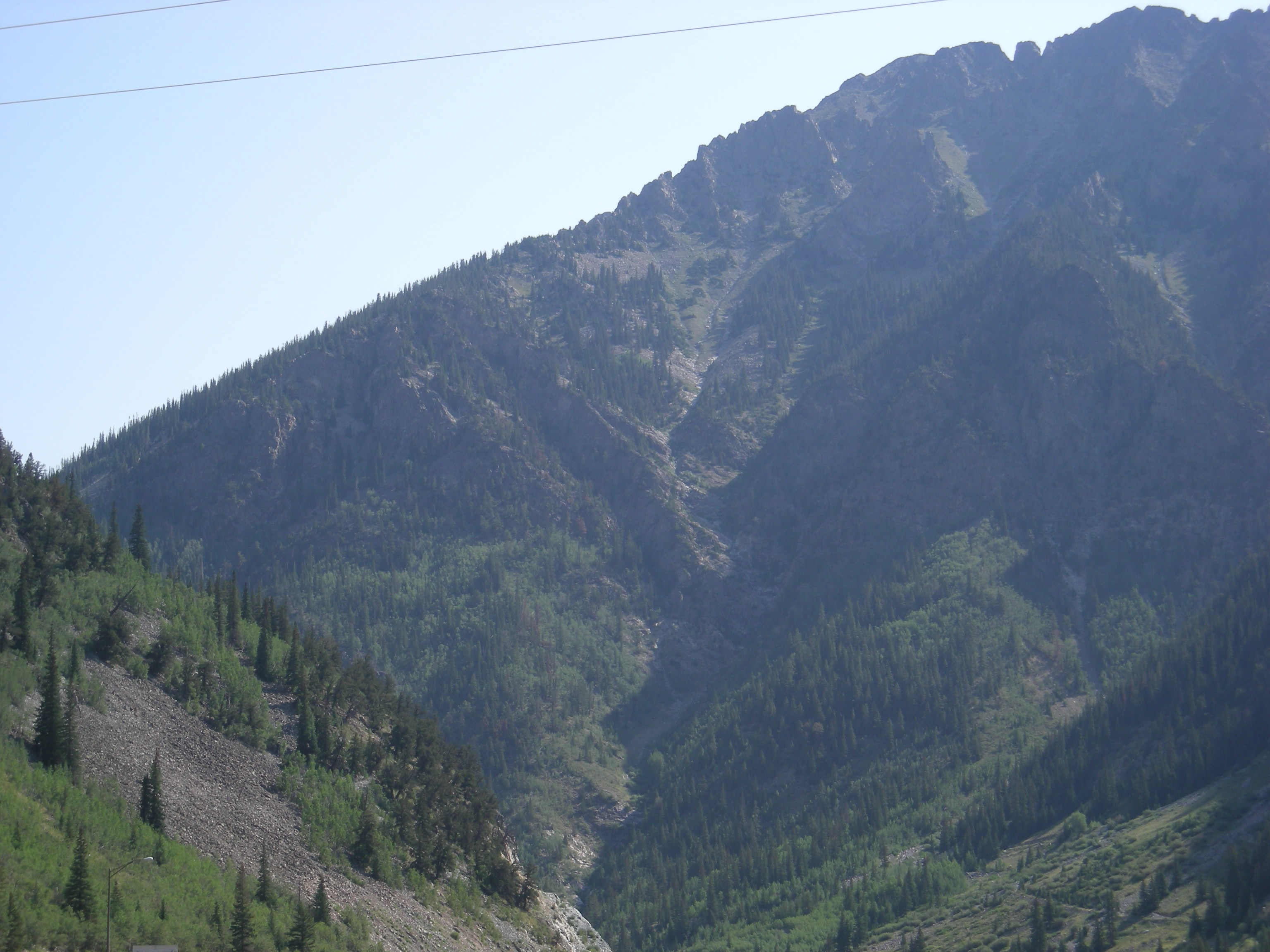 The Rocky Mountains as seen from the Scenic Area along I-70 near Copper Mountain in Summit County, Colorado (United States).